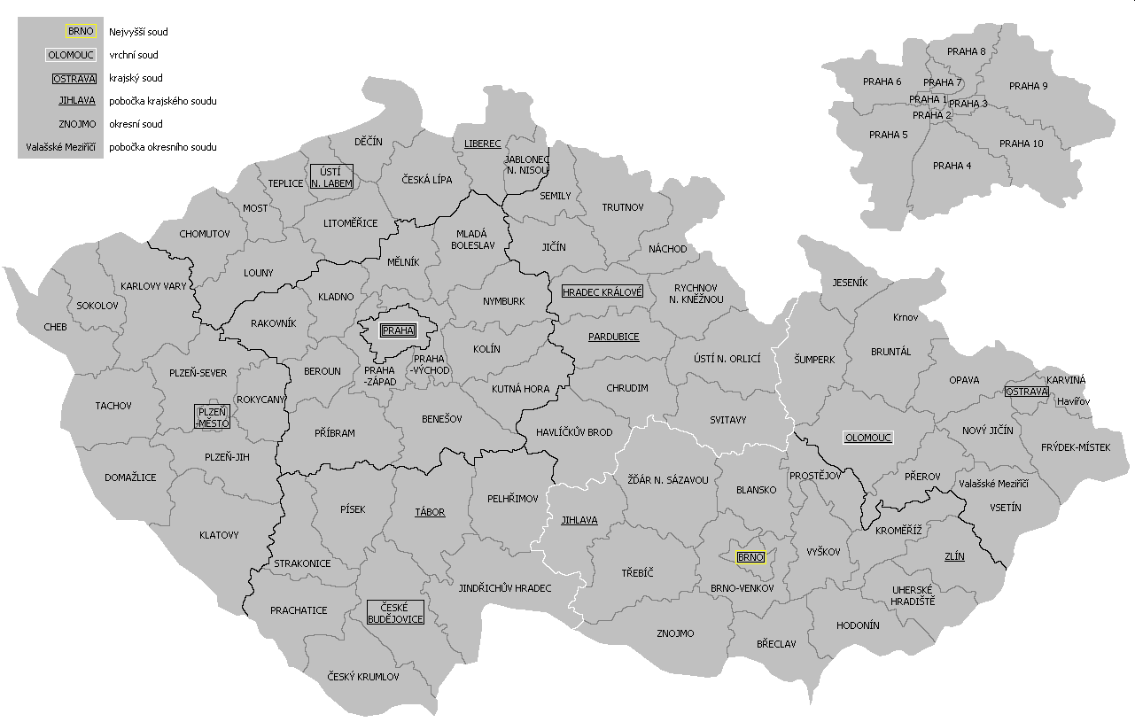 General courts in the Czech Republic – Map BRNO – The Supreme Court of the Czech Republic OLOMOUC – The High Court of the Czech Republic OSTRAVA – regional courts JIHLAVA – regional court branches ZNOJMO – district courts Valašské Meziříčí – district court branches